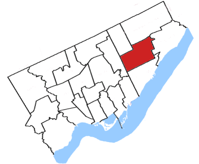 Map of the Scarborough Centre electoral district showing its borders from 1996 to 2004. Created by SimonP.